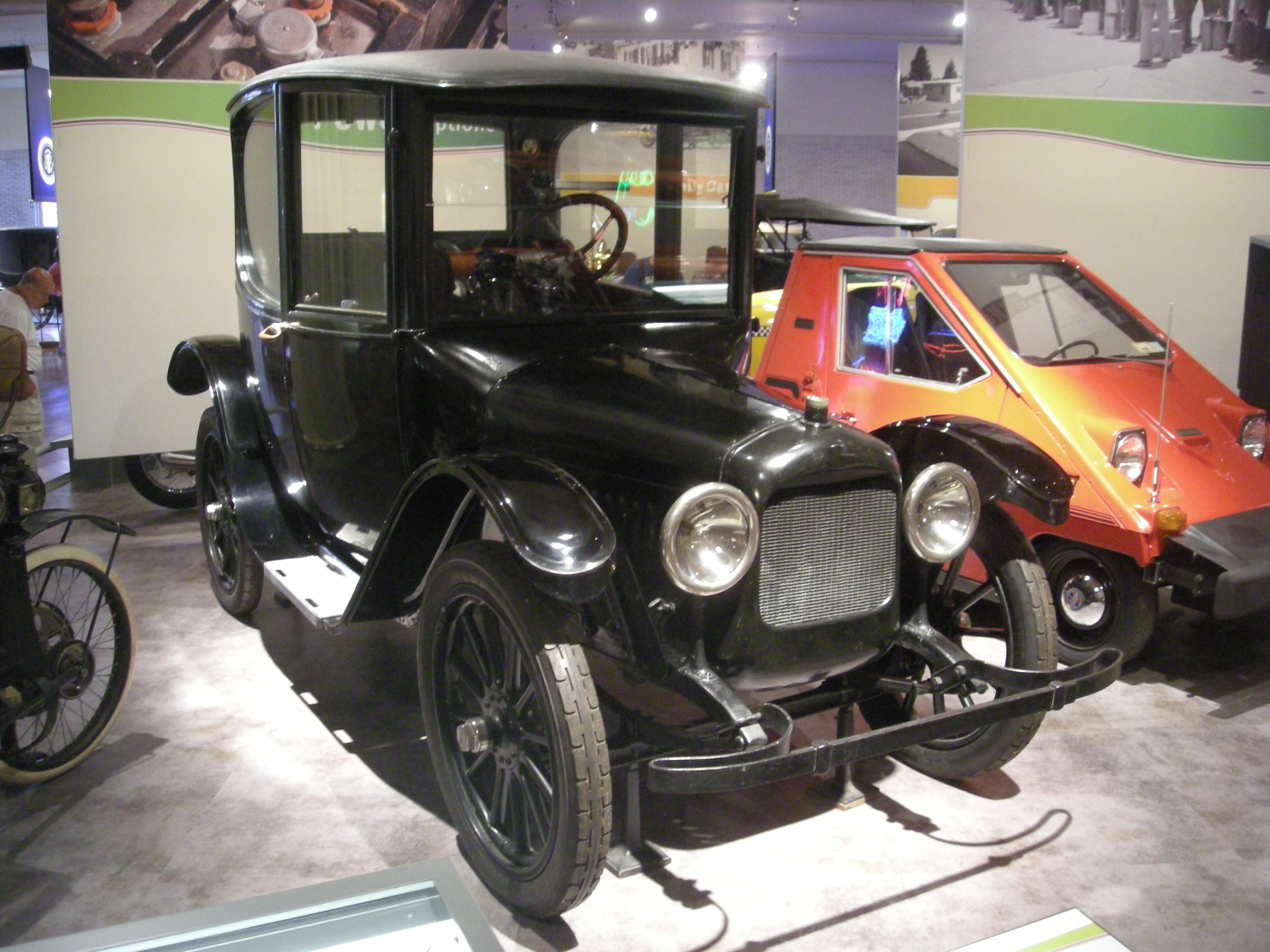 A 1916 Woods Dual-Power hybrid coupe on display at the Henry Ford Museum in Dearborn, Michigan (United States).